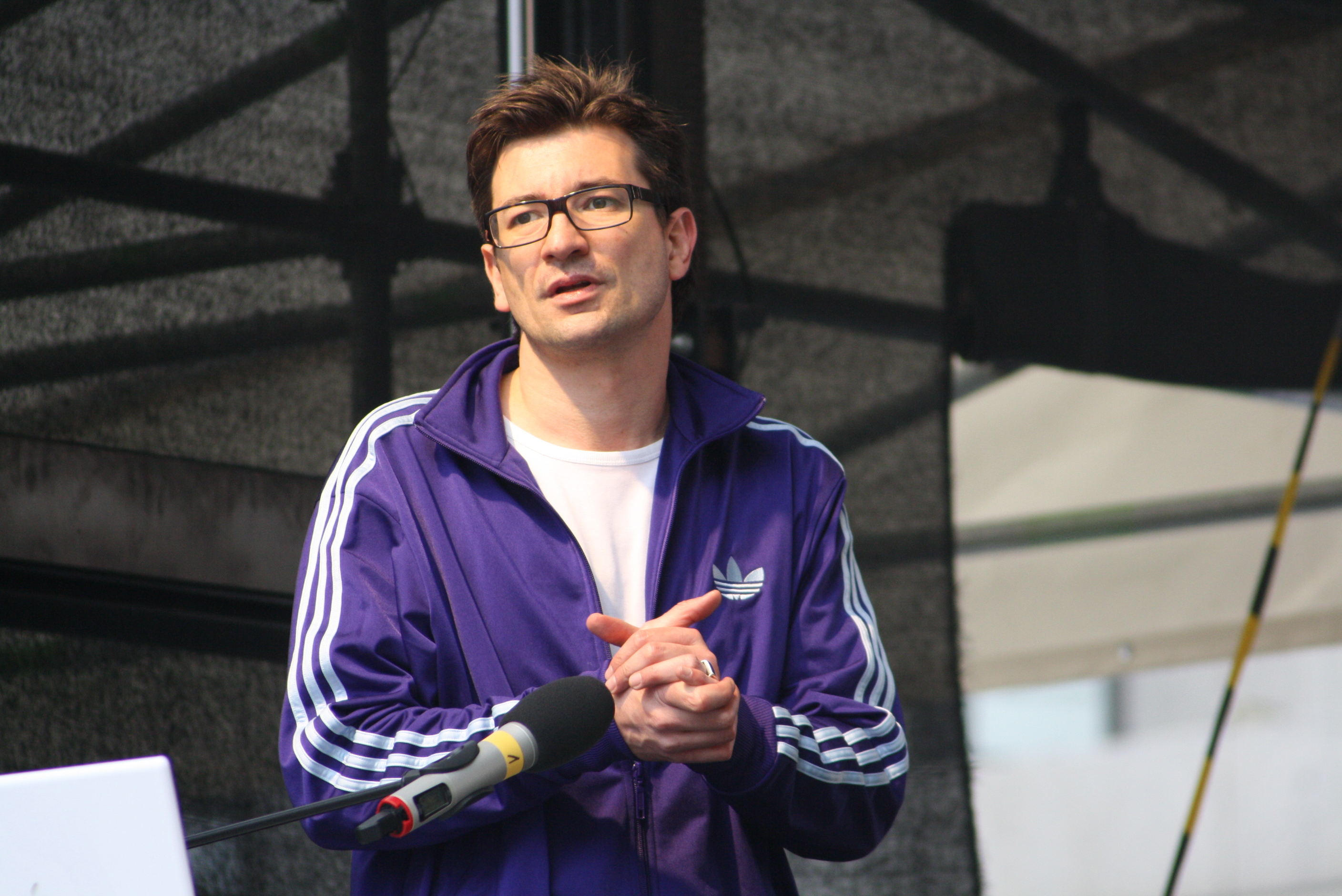 Keyboardist Marco Köstler for the band Bürgermeista & Gemeinderäte